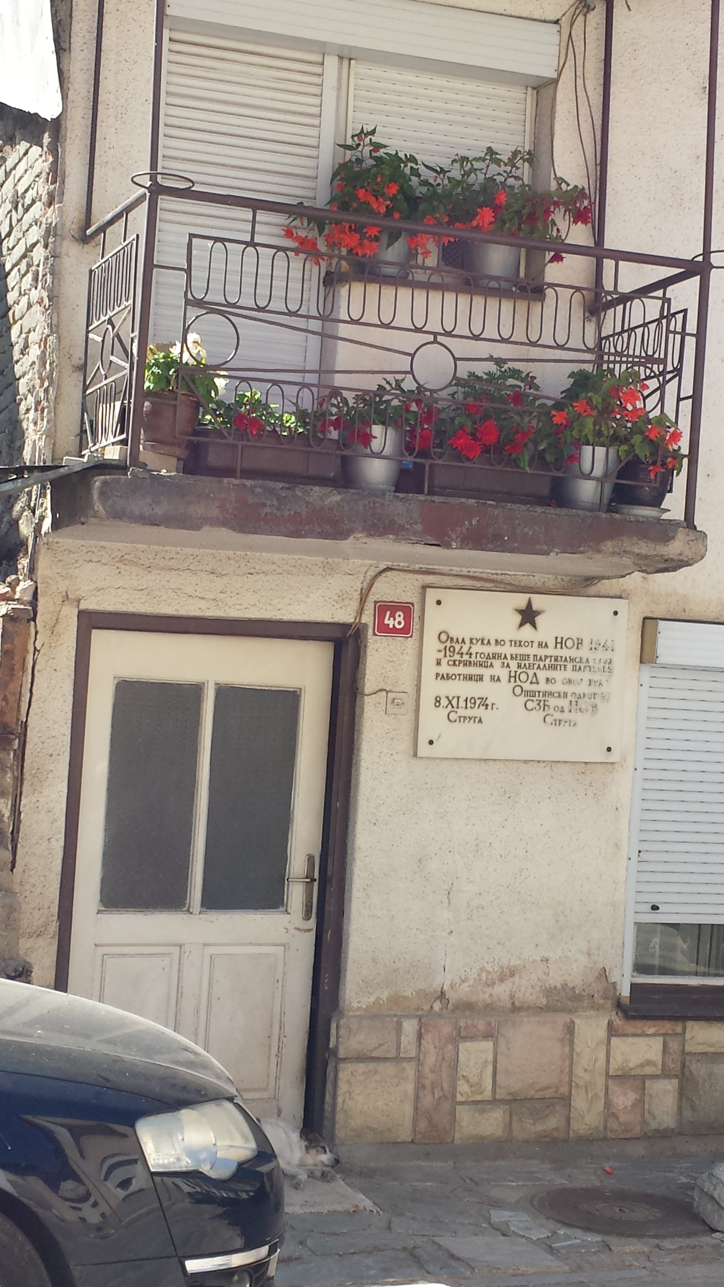 Monument